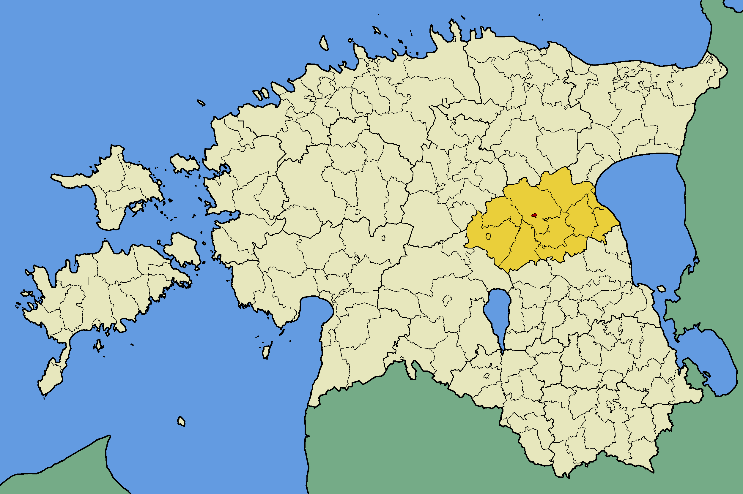 Map of Estonia with borders of municipalities (parishes). Jõgeva county and Jõgeva town municipality emphasized.